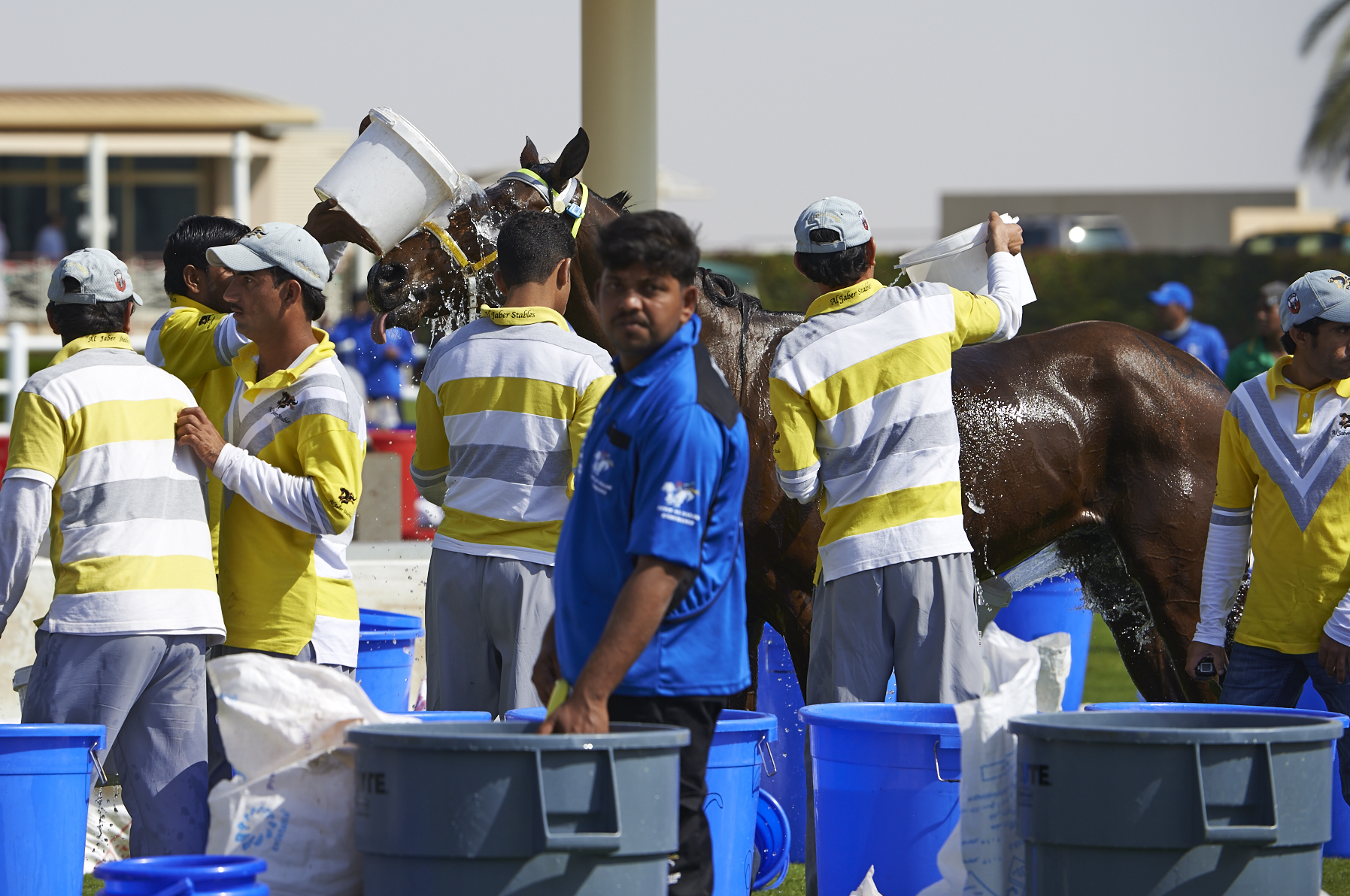 The 120km Gamilati Endurance Race took place on 7 February, riders and horses alike competing across five stages at the state of the art Dubai International Endurance City in the United Arab Emirates. After an exciting evening of competition, the event’s three lucky winners walked away with a Range Rover Sport HSE and Range Rover Evoque Dynamic: bit.ly/1g0dShY